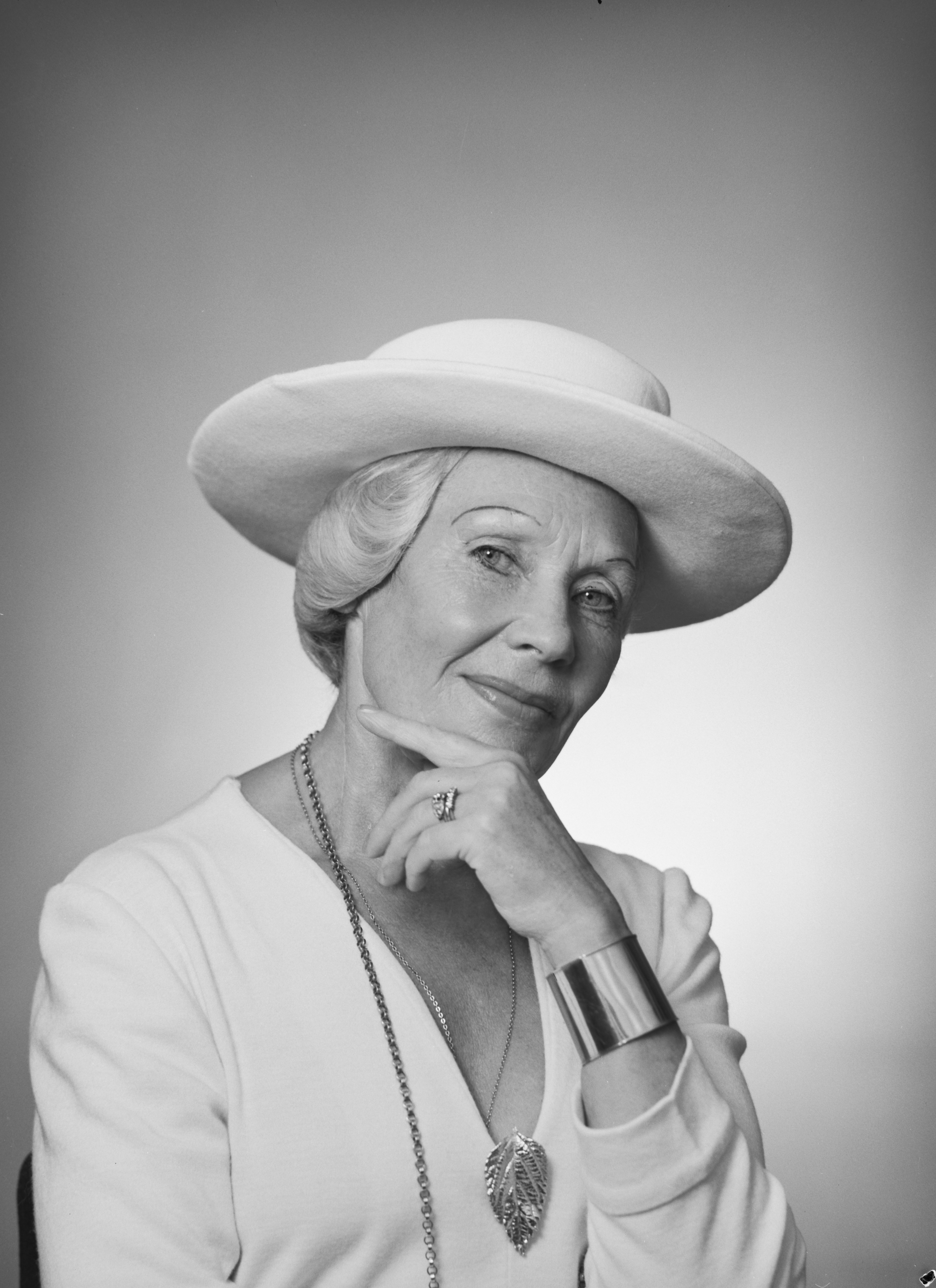 Photograph of the Finnish textile and costume designer Li (Lyyli Inkeri) Englund (1908–1993).